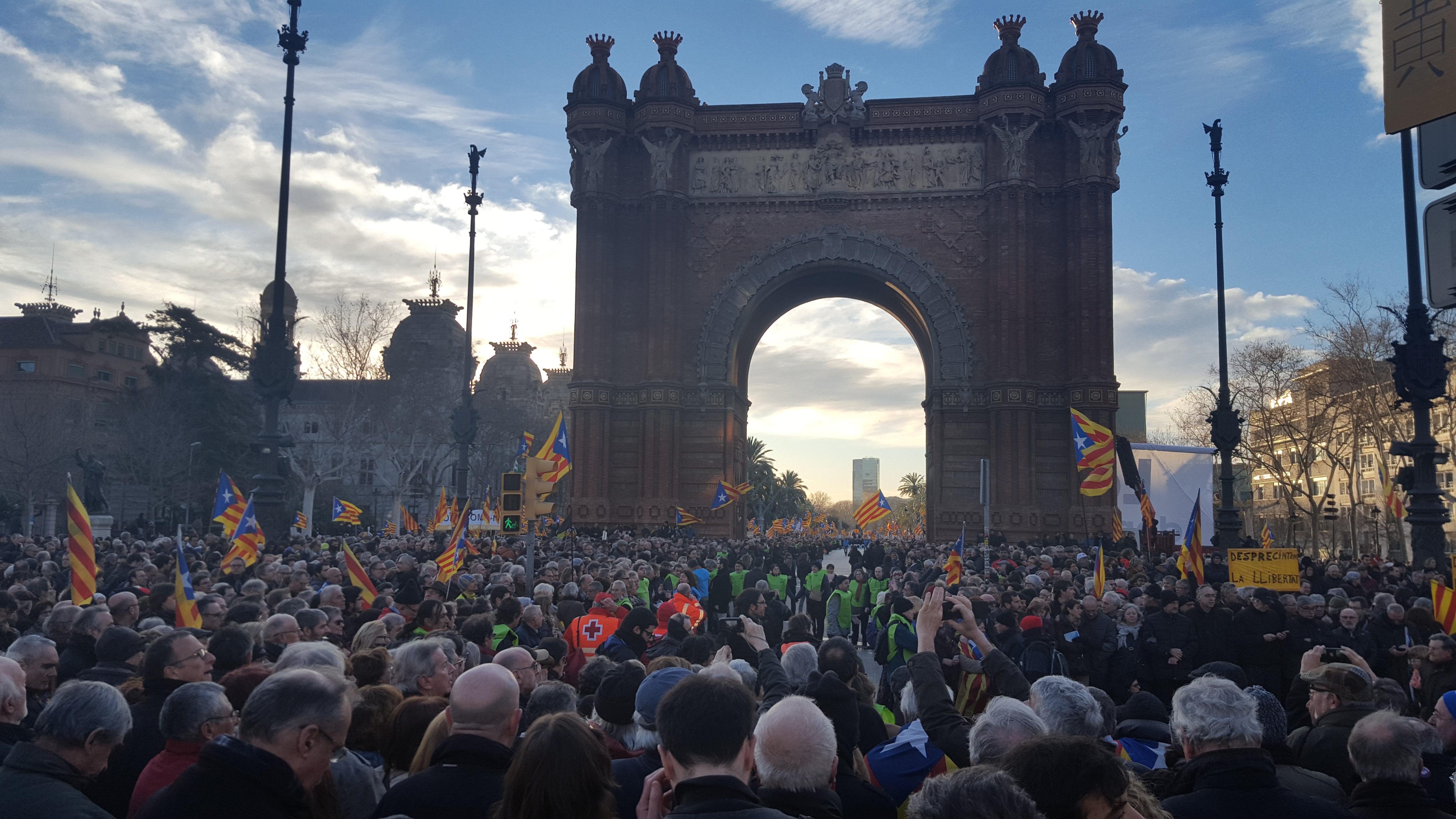 Protest against the trial of Artur Mas, Joana Ortega and Irene Rigau